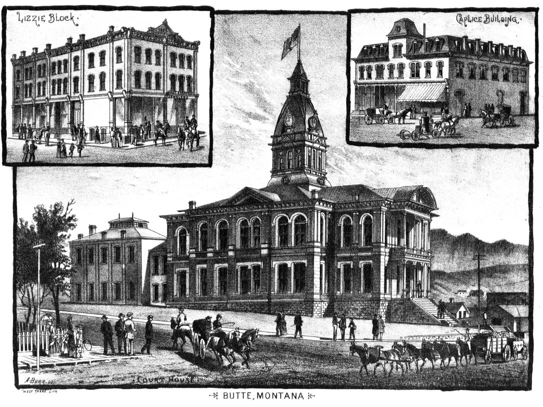 Origin:From the August, 1885 edition of West Shore (pdf page 16)